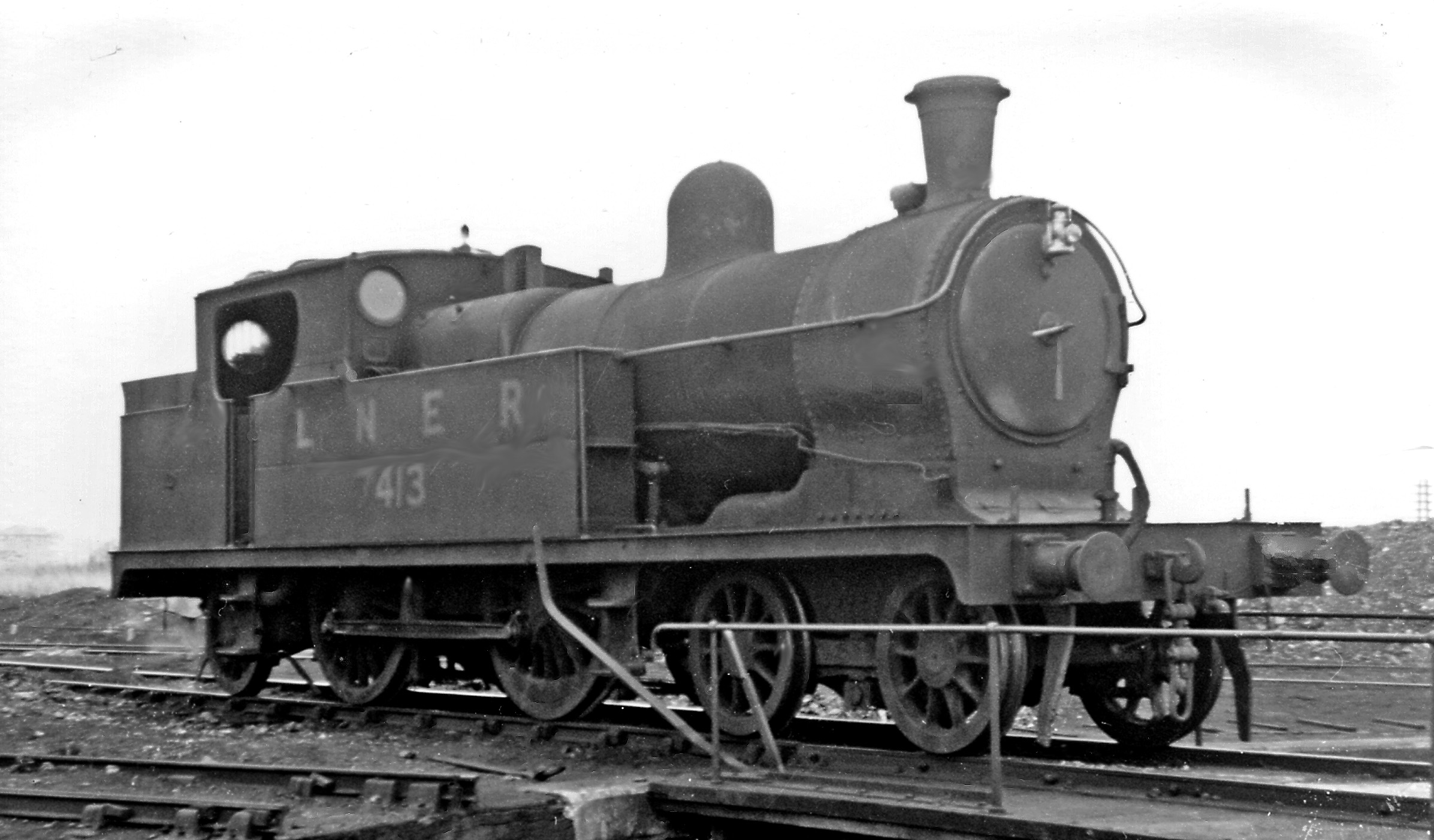 Ex-Great Central Class 9K 4-4-2T at Chester Northgate Locomotive Depot. Chester Northgate Station next door was not closed until 9/9/68, but the small Locomotive Depot lasted only until January 1960. In 1947 it had an allocation of just 12 locomotives:- 2 0-6-0, 7 4-4-2T, 3 0-6-2T, all LNER. Here Robinson C13 4-4-2T No. 7413 is half on the turntable.